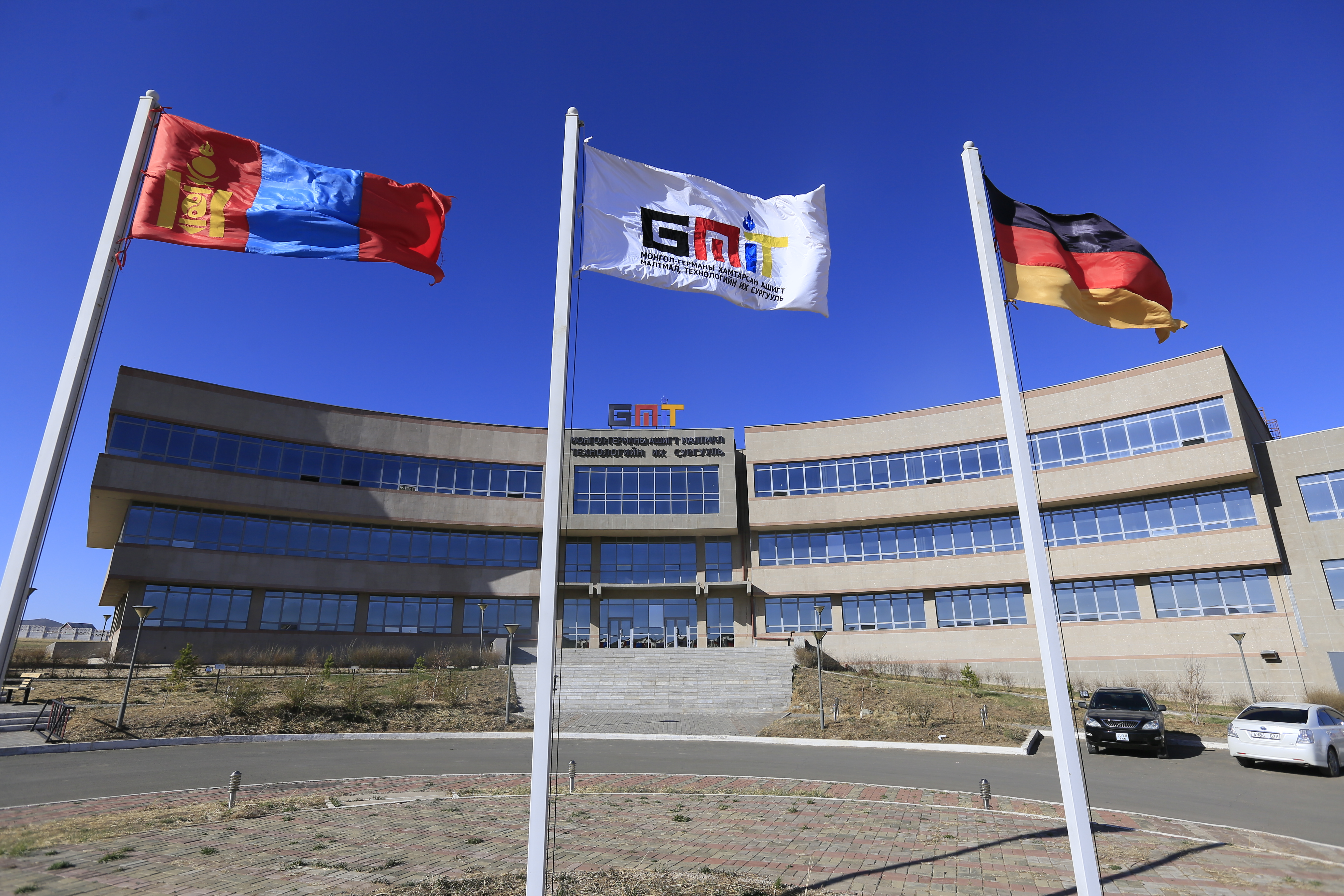 GMIT Main building- public university in Mongolia